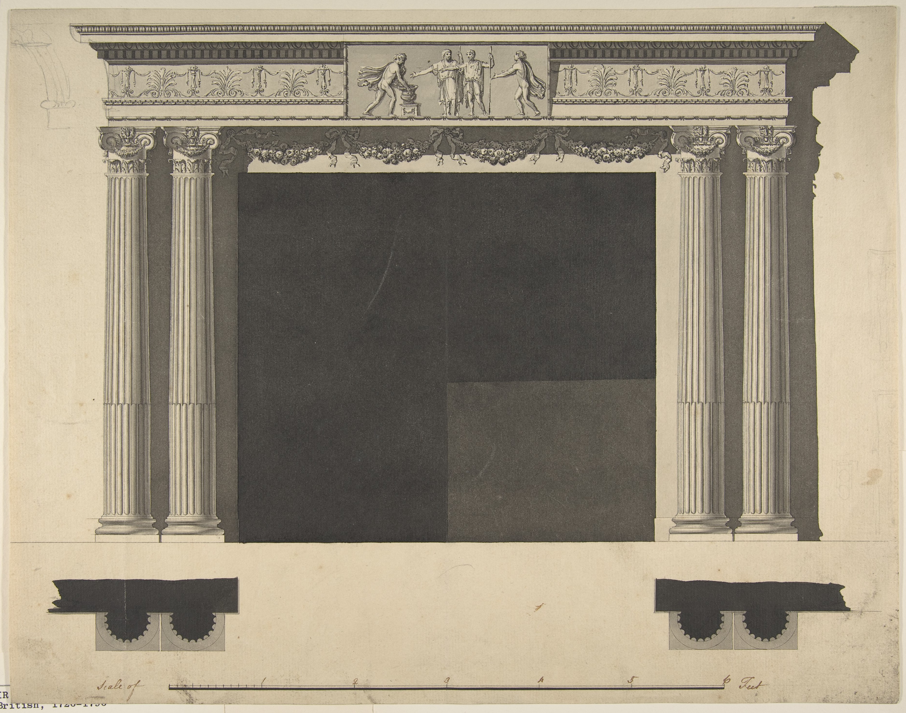 Drawing ; Ornament and Architecture; Drawings